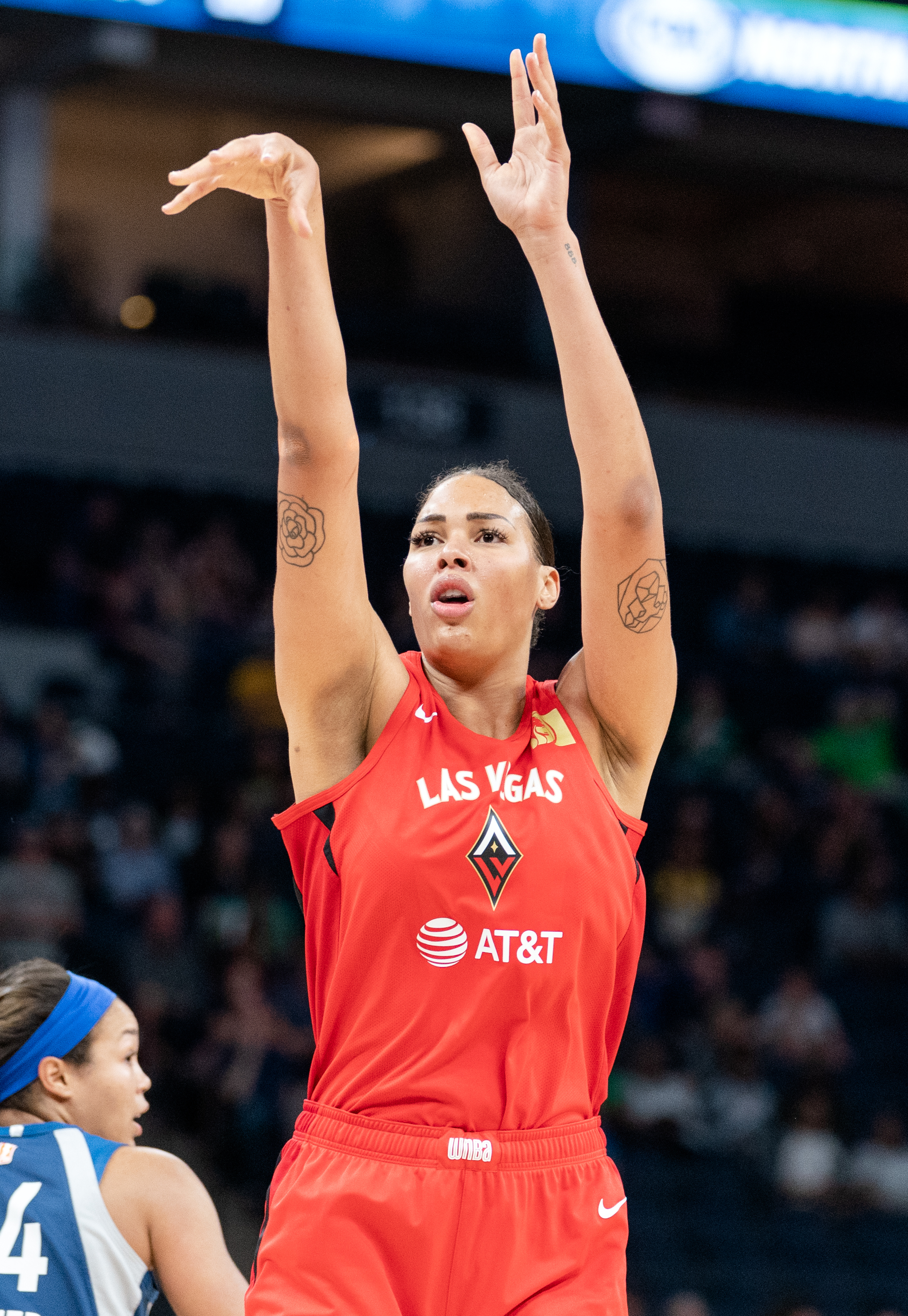 Minnesota Lynx vs Las Vegas Aces at Target Center in Minneapolis, MN on June 1 2019; the Aces won the game 80-75.